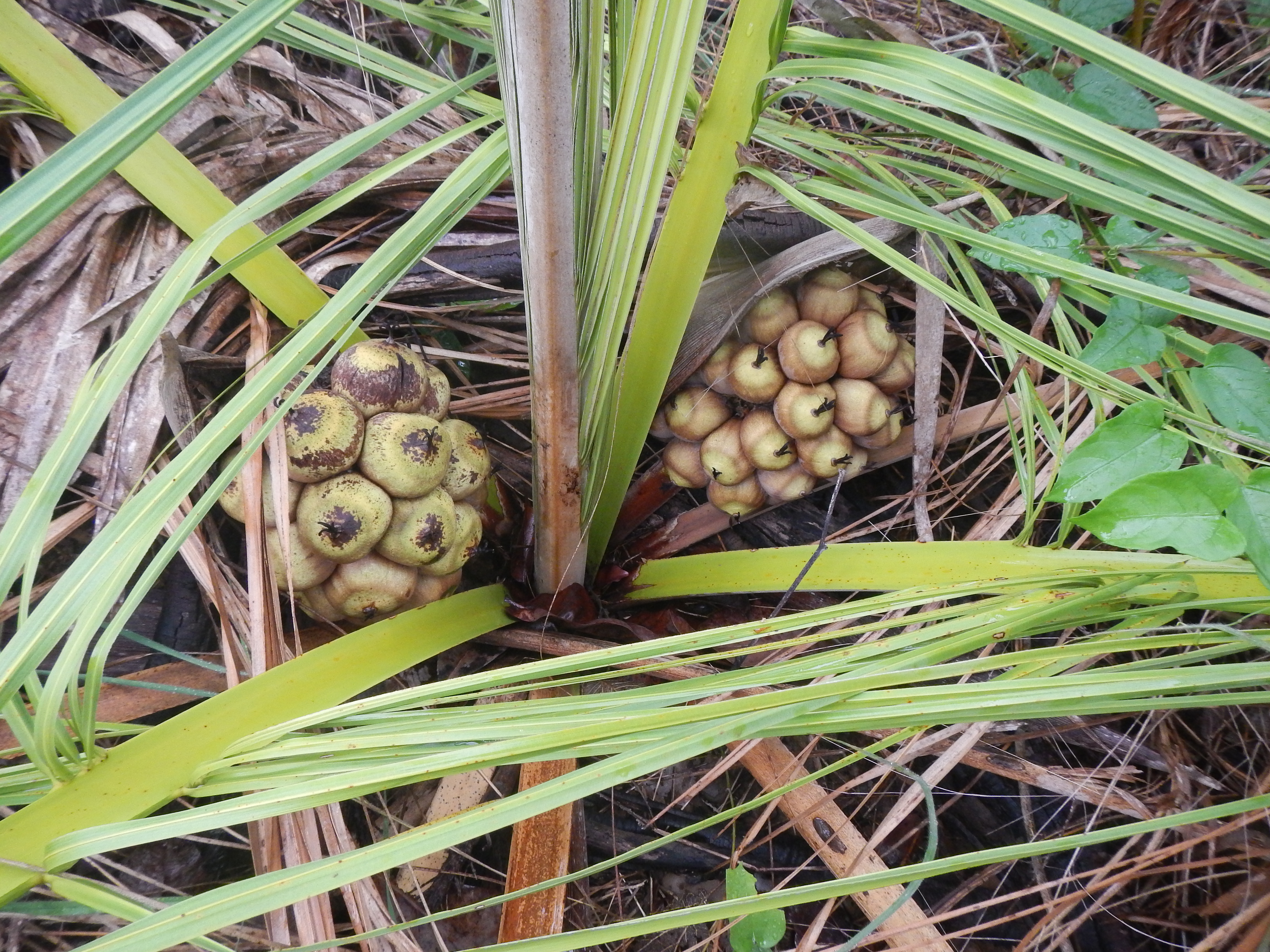 Attalea barreirensis in São Raimundo das Mangabeiras, Maranhão state, Brazil